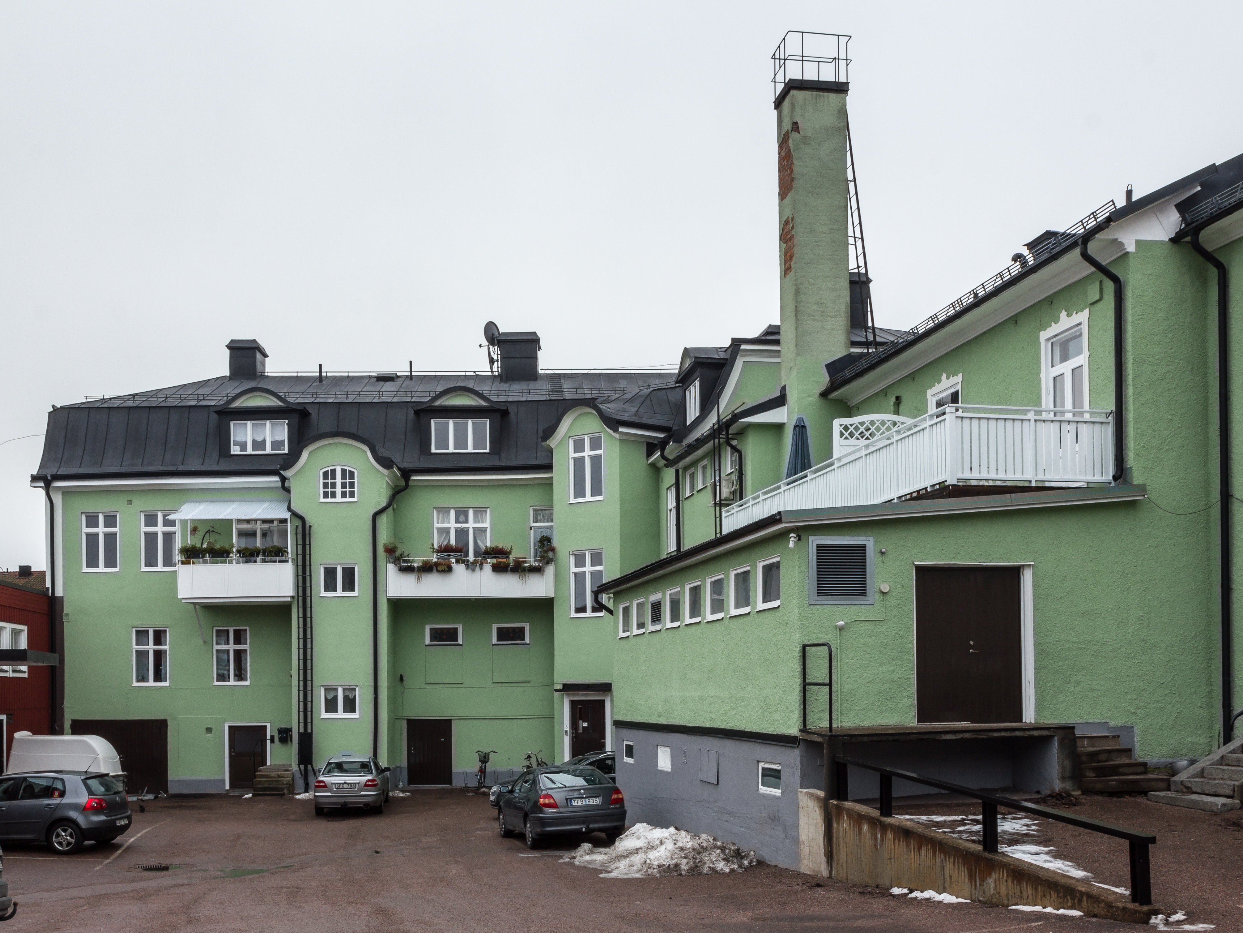 Posterior view of the former hardware store (architect: C.J. Perne) and adjacent building along street Ämbetsgatan, Hedemora, Dalarna County, Sweden.